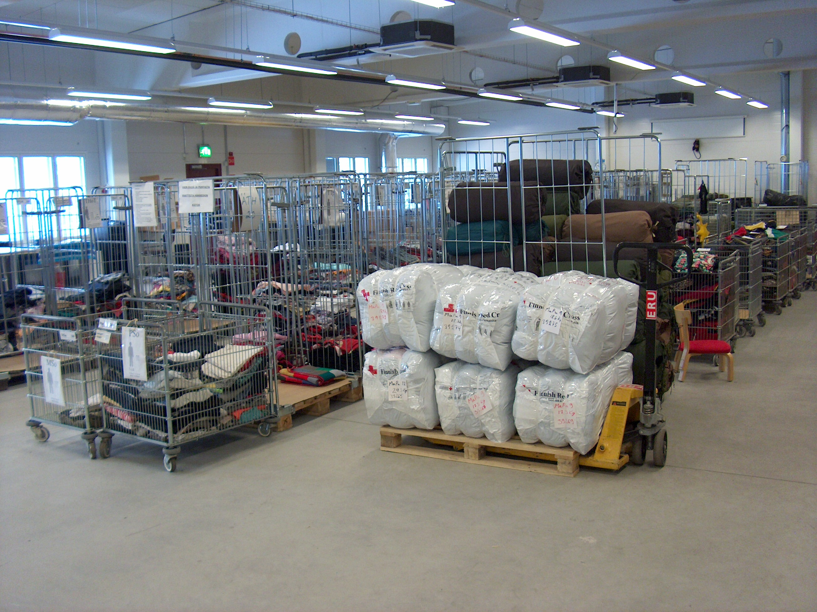 From the Logistics Centre of the Finnish Red Cross in Kalkku, Tampere, Finland.